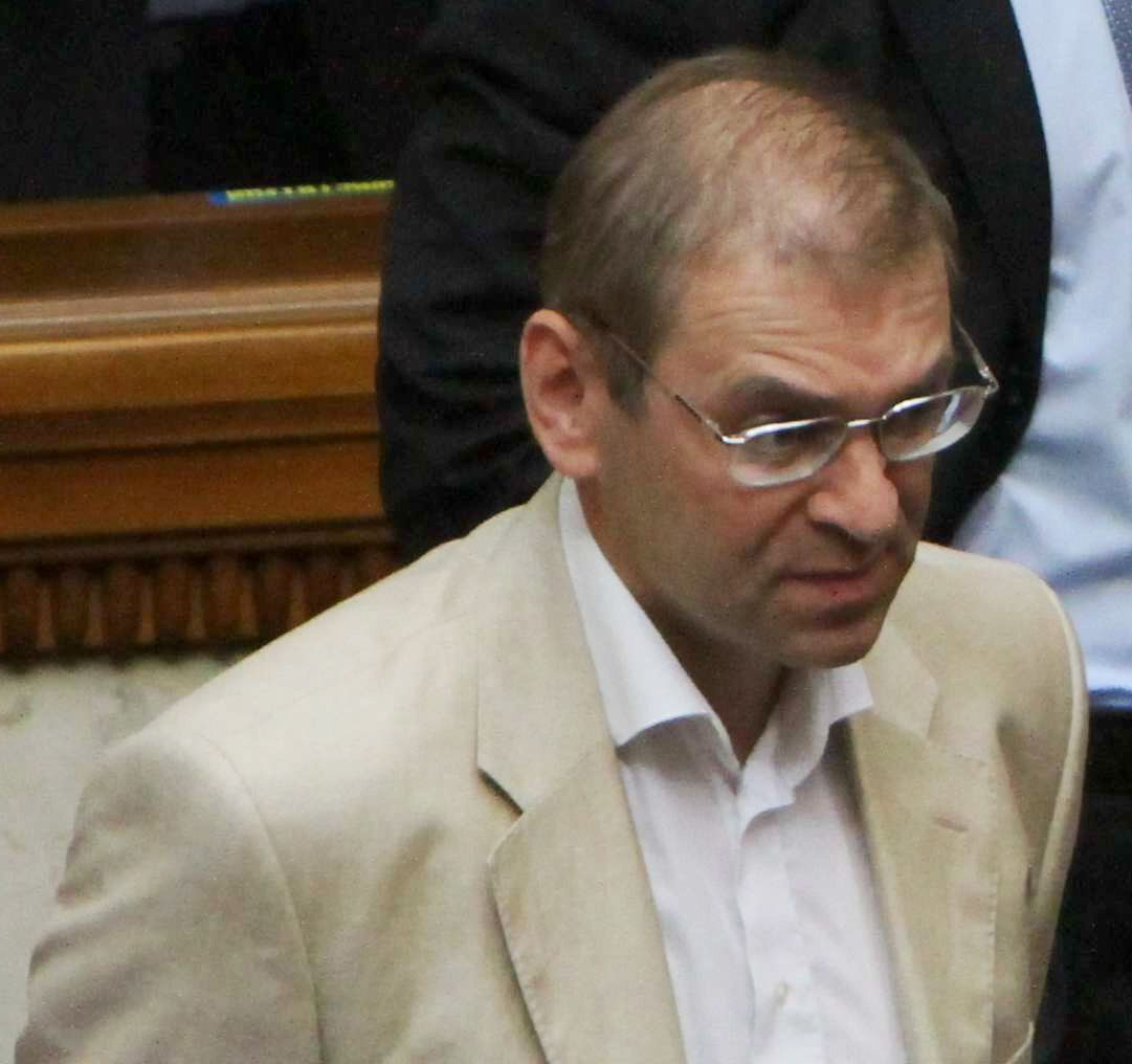 Serhiy Pashynskyi, Ukrainian politician, member of the Ukrainian Verkhovna Rada